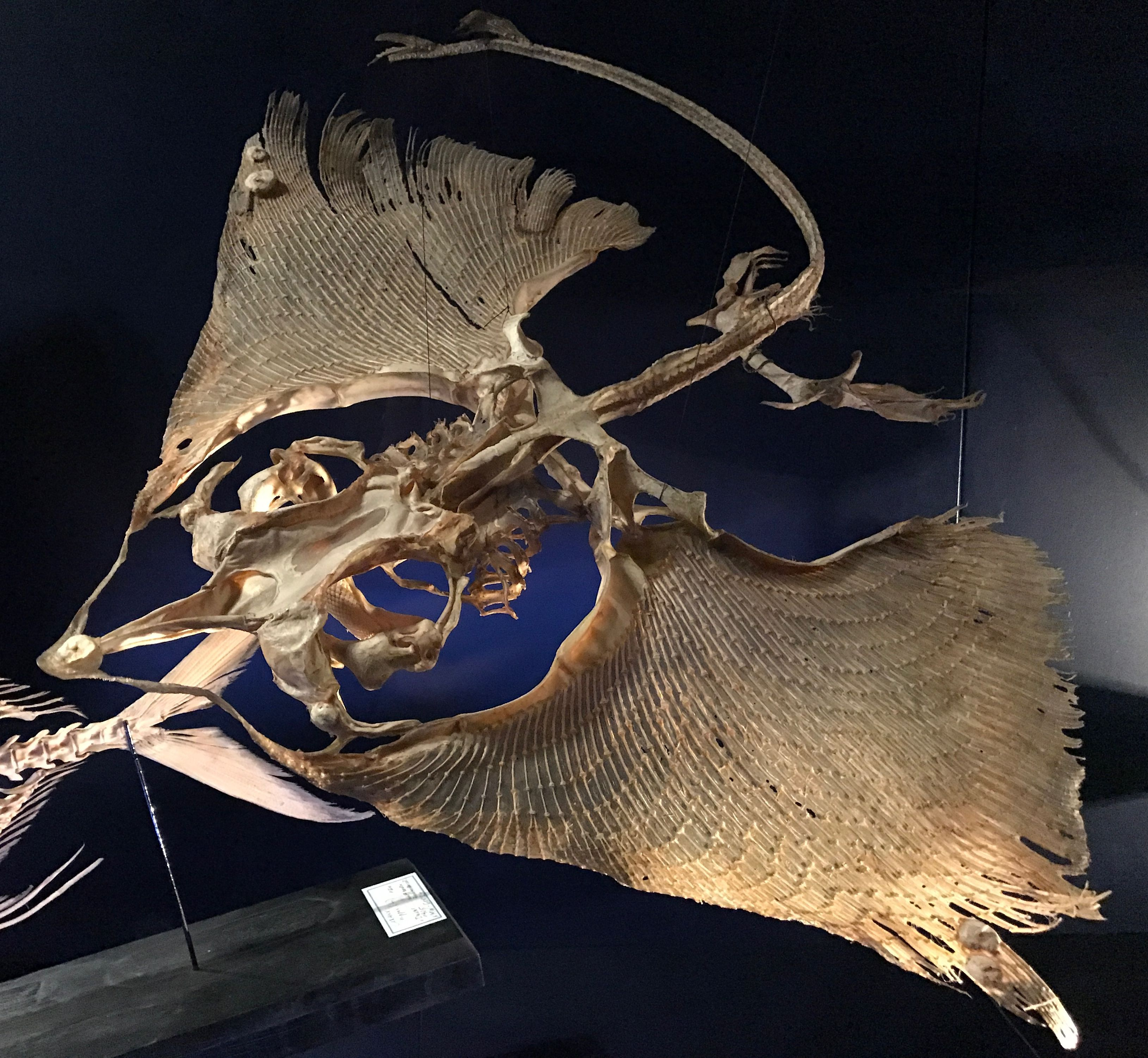 thornback ray Raja clavata preparation of the Museum of Natural History in Vienna